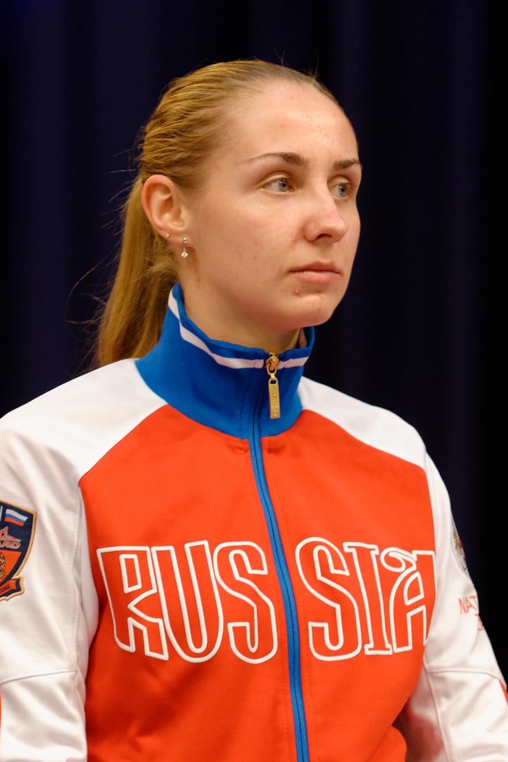 Violetta Kolobova at the trophy presentation of the Challenge international de Saint-Maur 2013, women's épée World Cup tournament.